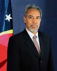 Xanana Gusmão as Prime Minister of Timor Leste